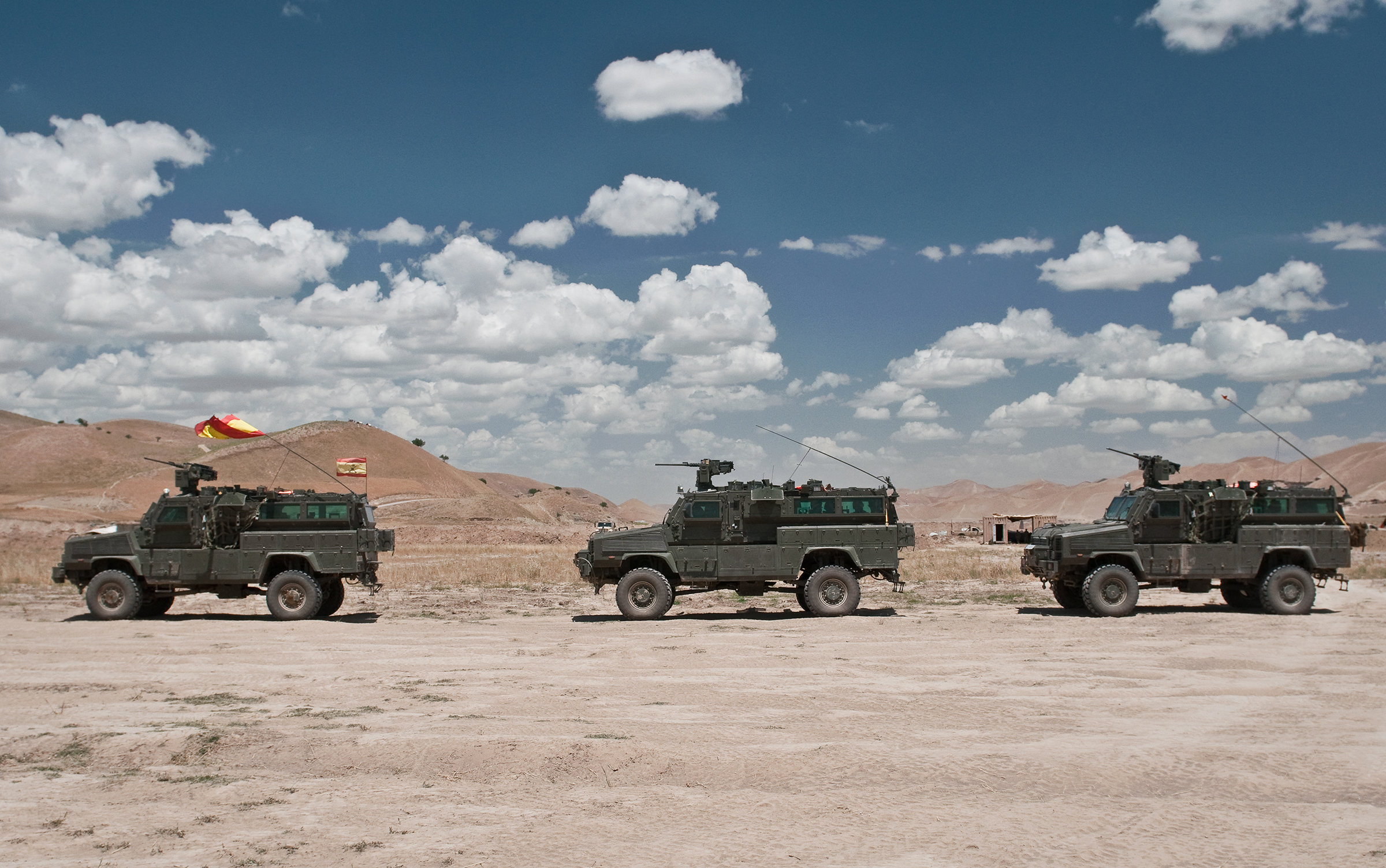 BADGHIS PROVINCE, Afghanistan (June 03, 2010) – Spanish RG-31 Nyala prepare to depart Forward Operating Base Bernardo de Galvez for a patrol through the town of Sang Atesh. (Photo by U.S. Navy Petty Officer 1st Class Mark O’Donald/Released)